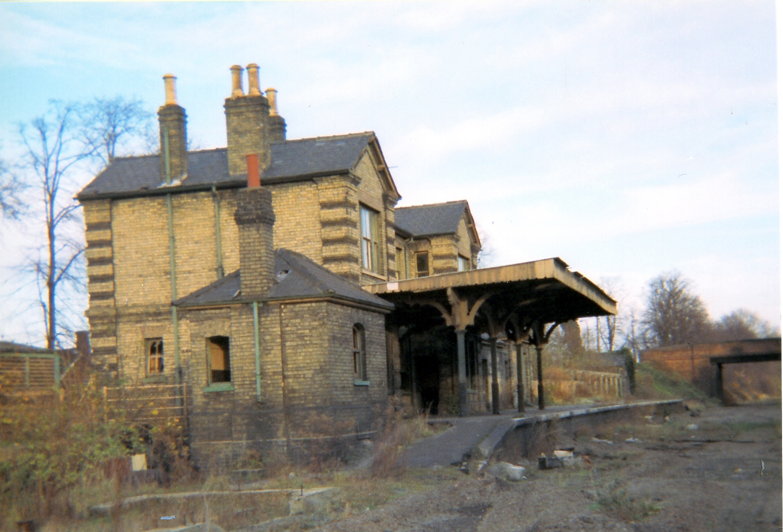 1970 image of Saffron Walden's former Great Eastern Railway station.